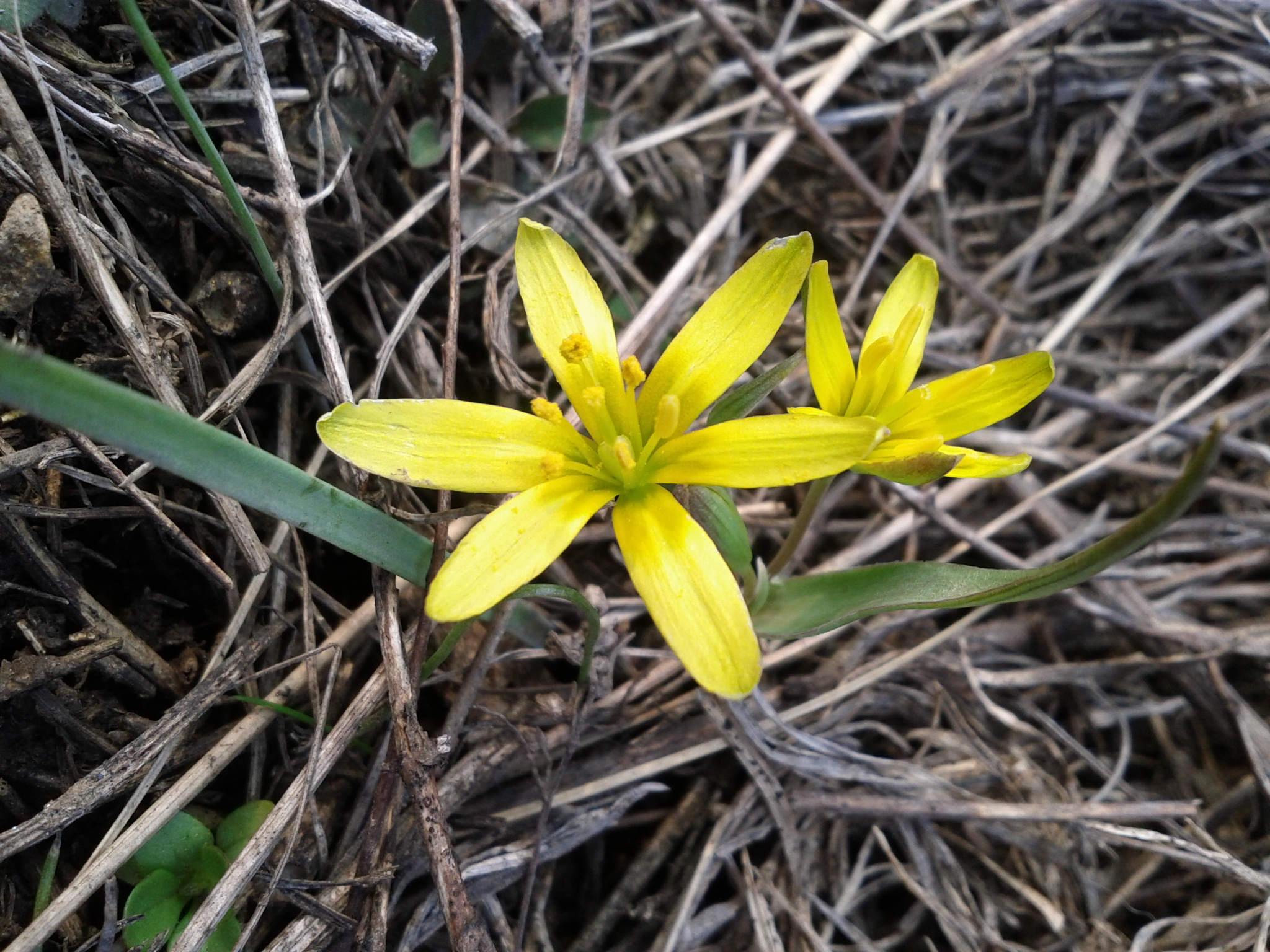 Flowers Taxonym: Gagea pusilla ss Fischer et al. EfÖLS 2008 ISBN 978-3-85474-187-9 Location: Alte Schanzen, object XII, Floridsdorf, Vienna - ca. 225 m a.s.l. Habitat: dry grassland